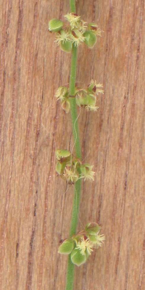 Rumex acetosella flowers